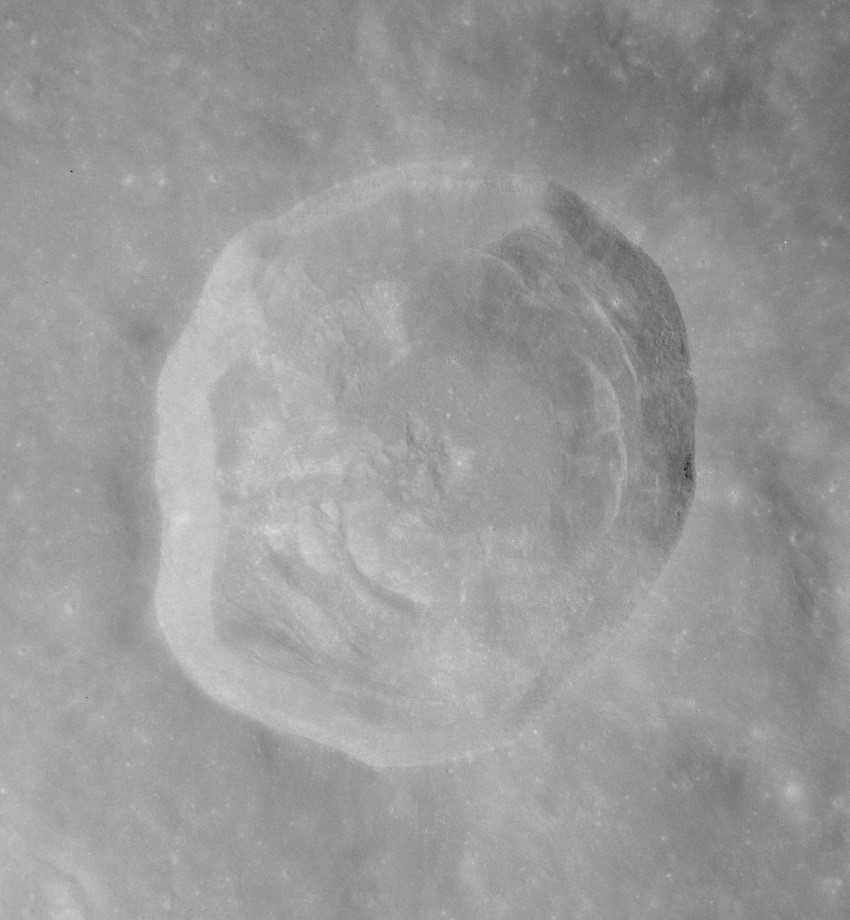 Slightly oblique view Lalande, on the moon.